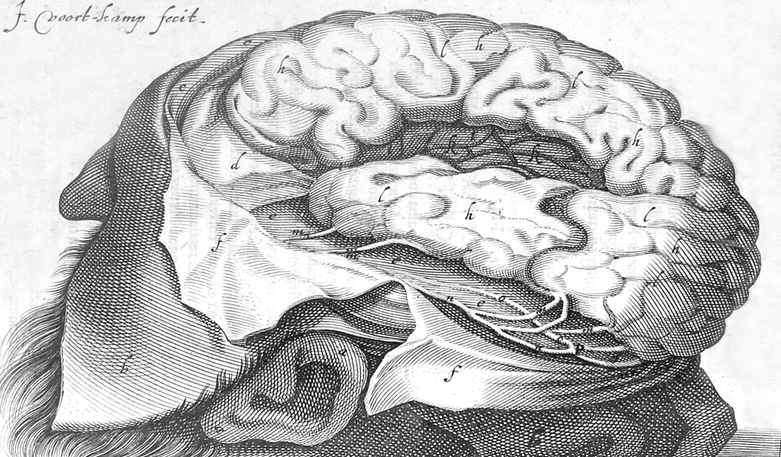 Illustration of the sylvian fissure by J. Voort Kamp in the 1641 anatomy book Institutiones Anatomicae by Caspar Bartholin. The lateral fissure (depicted in this book's engraving) was attributed in this book's text to have been discovered by Franciscus Sylvius with the result that it gained the name Sylvian fissure.